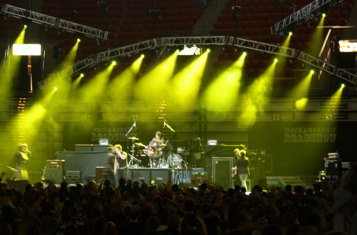 The band Anthem Lights at the Rock & Worship Roadshow national tour at the Resch Center in Green Bay, Wisconsin.